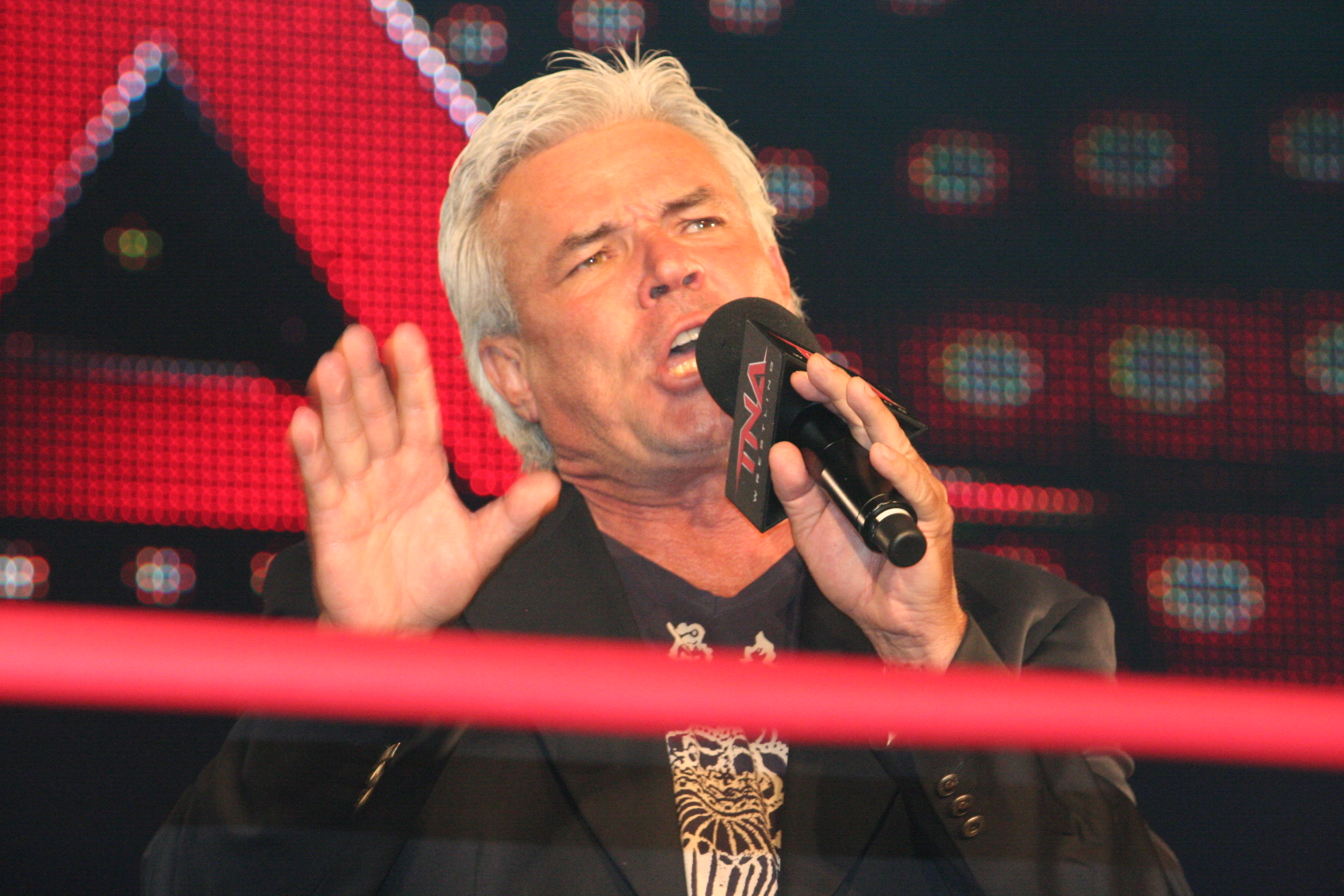 Eric Bischoff at a TNA Impact! taping